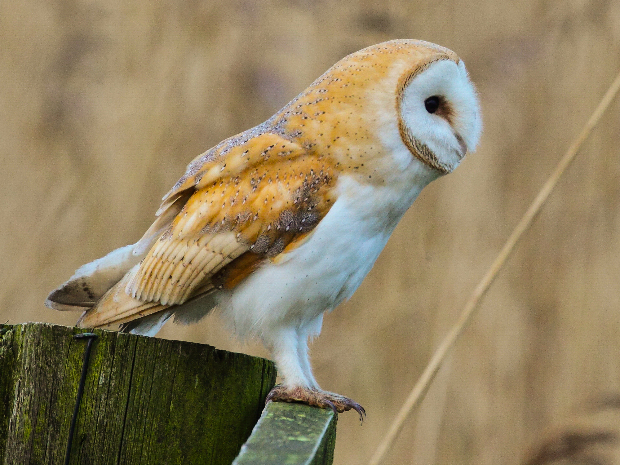 Tyto alba; Wales. 2016. detail of: File:Tyto alba tylluan wen.jpg